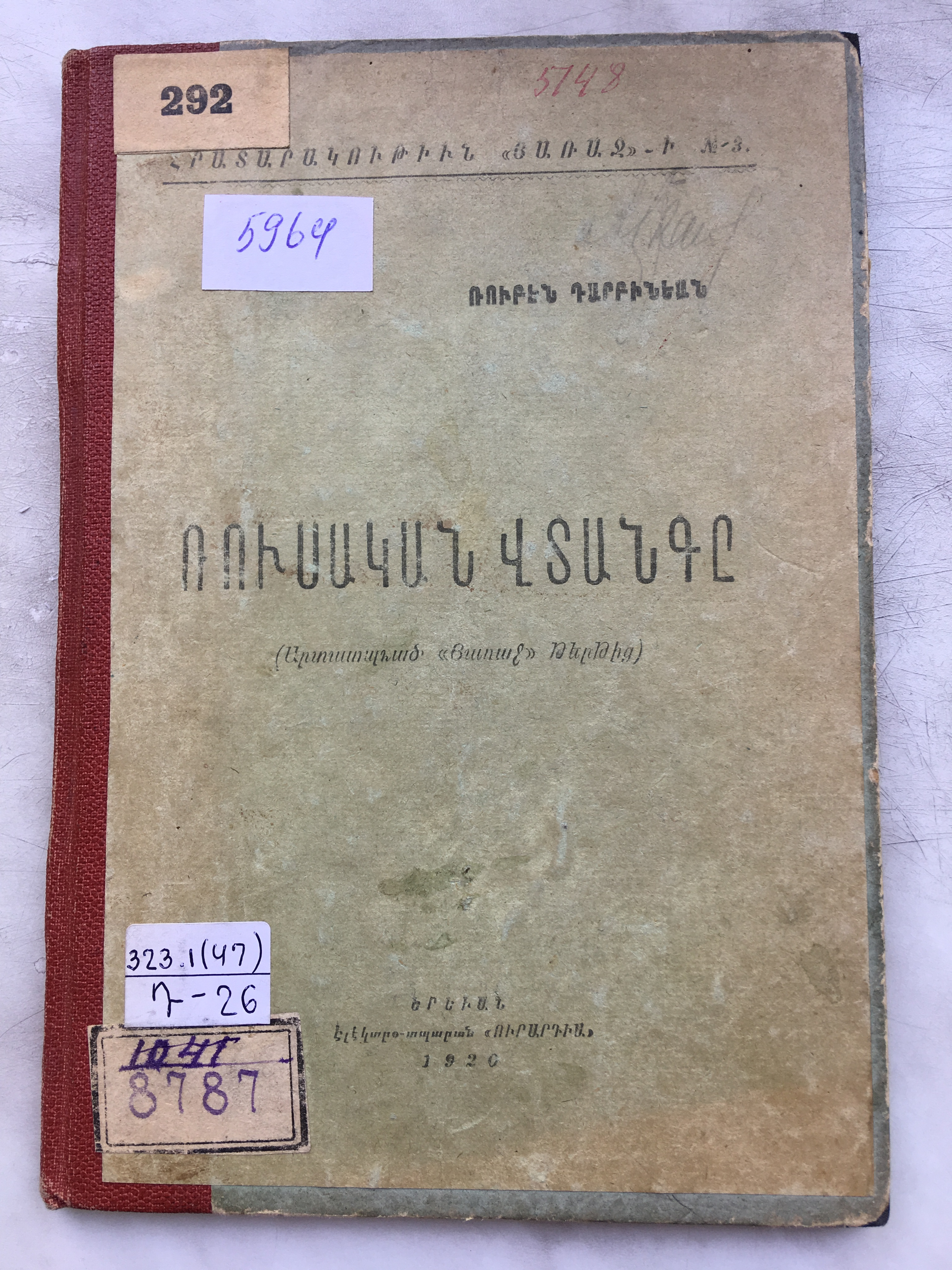 The cover of the book (printed in 1920) called «The Russian Threat» by Ruben Darbinyan, Minister of Justice of the Republic of Armenia (1920).